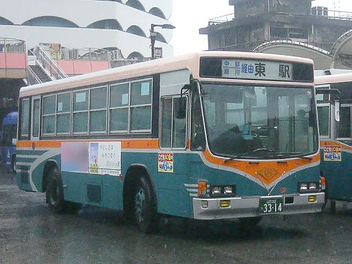 Sanden Kotsu bus. See below.